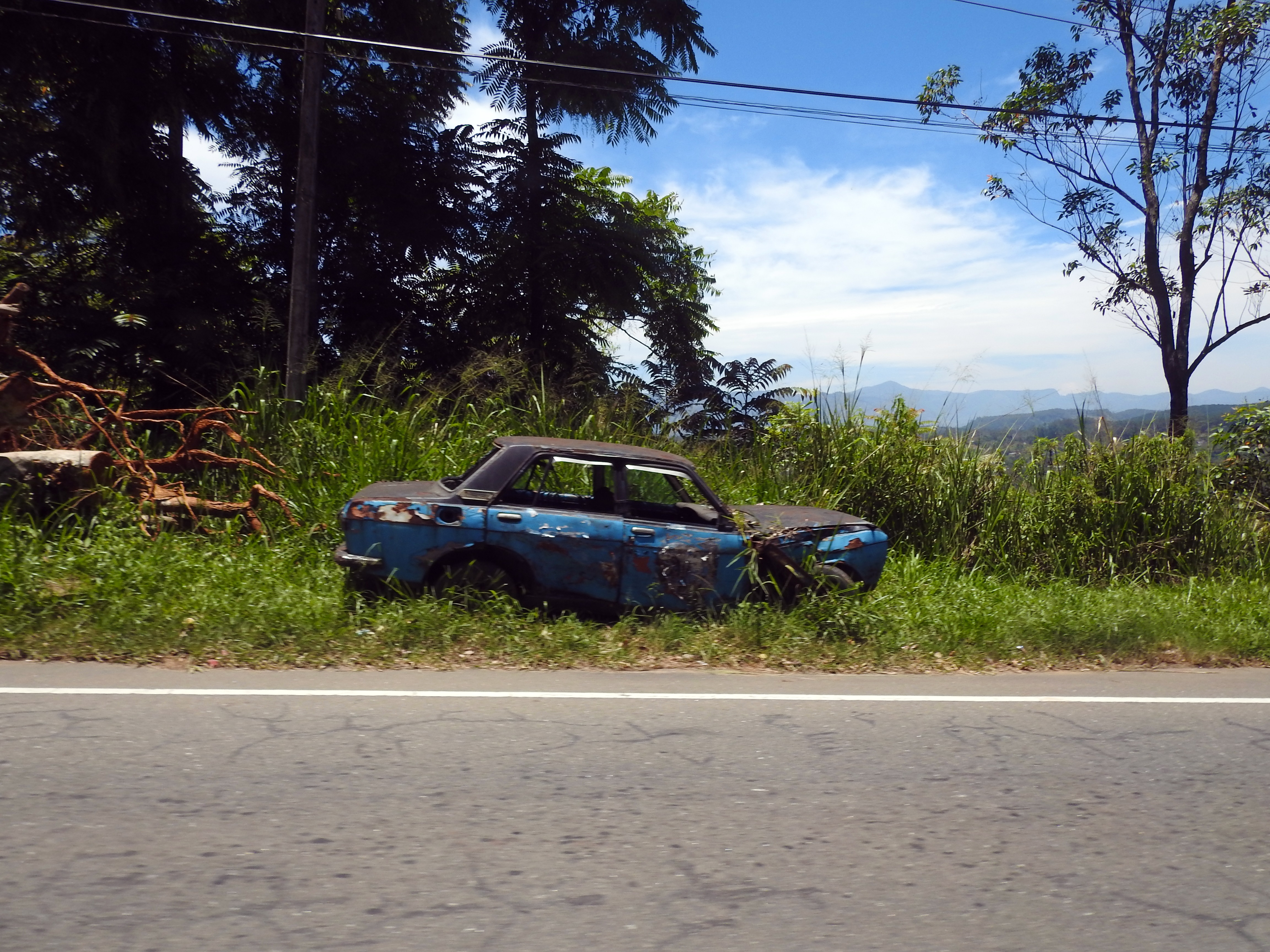 This photo was taken as part of a photo project by Wikimedia Community User Group Sri Lanka, covering current/future hydroelectric dams (and its surroundings) in the Central and Sabaragamuwa provinces of Sri Lanka. User:Rehman handled the photography, while User:Azeez and User:PasinduBR handled the logistics/planning of routes. Description of photo: Abandoned automobile somewhere around Haputale, in Sabaragamuwa Province. Further information on the subject(s) of the photograph may be found in the category/ies of this file.